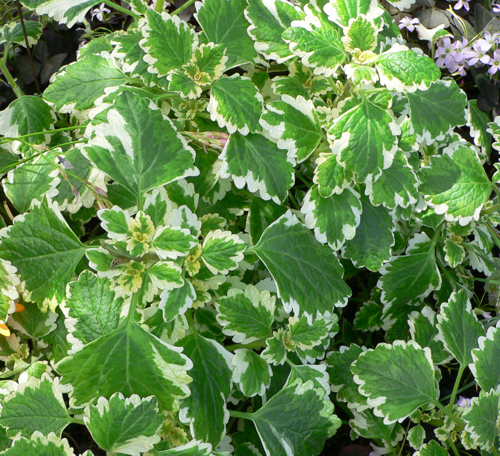 Pictures taken by myself at Longwood Gardens